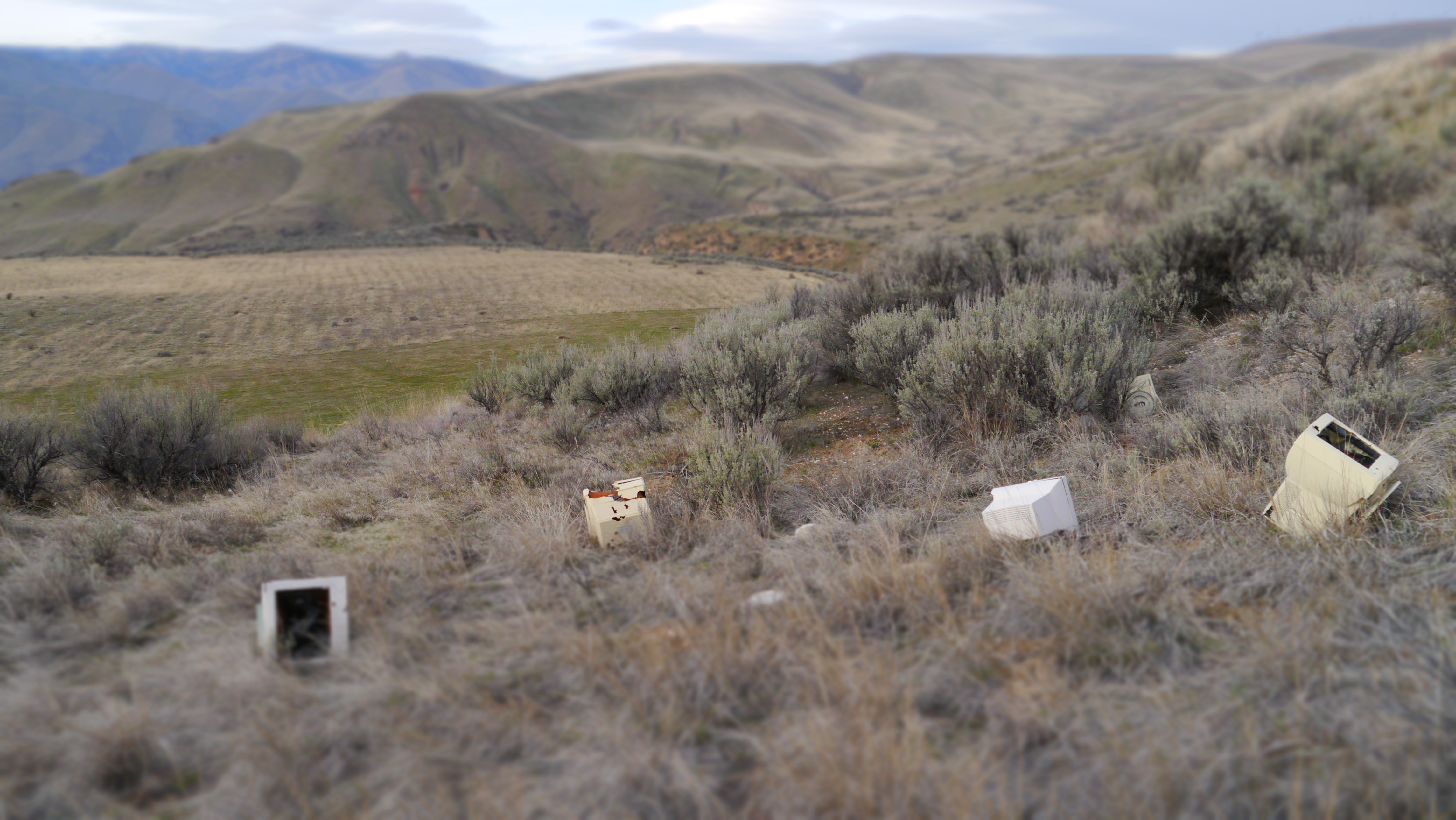 Old computer monitors disposed of on Bluegrade Road East Wenatchee Washington. Right after flatscreens became popular I came across this scene of carnage, many were also used for target practice.